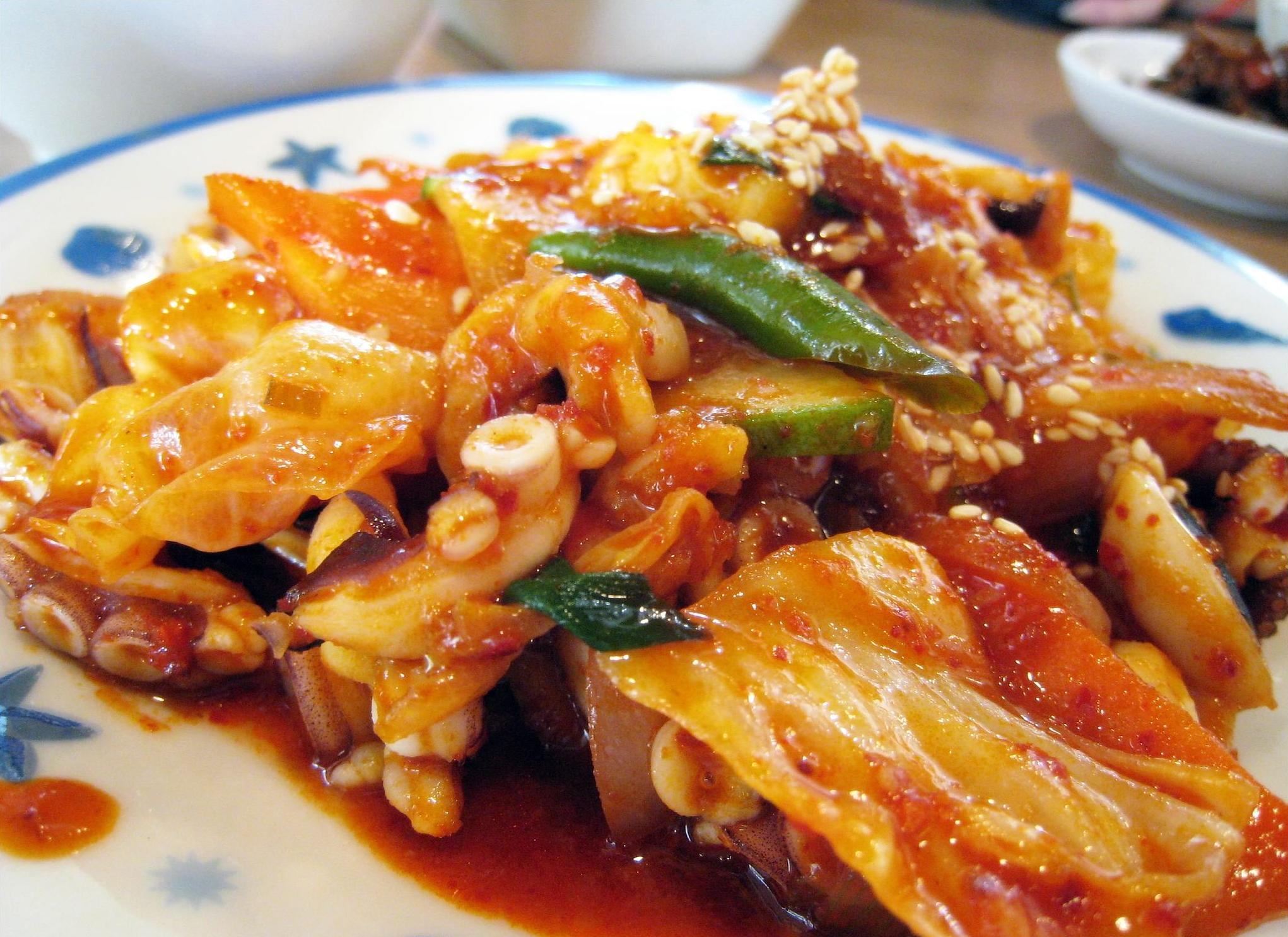 Nakji bokkeum (낙지볶음), pan-fried small octopus marinated in Gochujang (chili pepper based sauce) in Korean cuisine